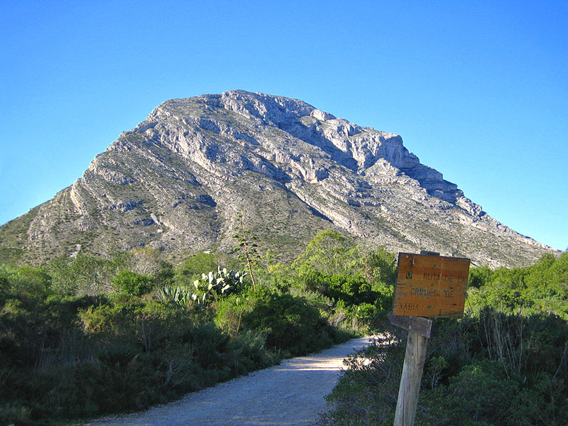 Montgó, from the plain of Saint Anthony, Xàbia, Region of Valencia, Spain.